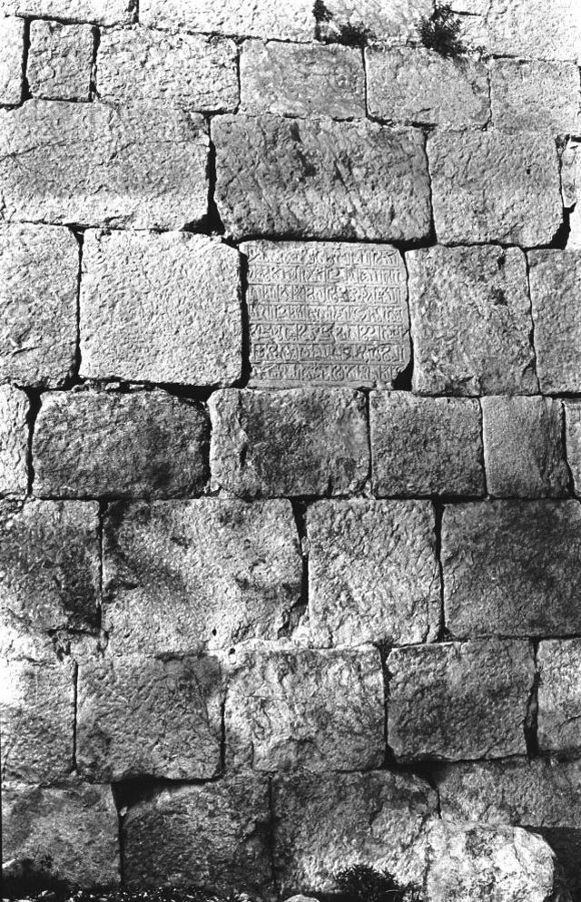 N. wall. 2. Merwanid Ahmad 405 H unpublished [City Wall - detail of N wall showing carved Arabic inscription - Merwanid Ahmad]